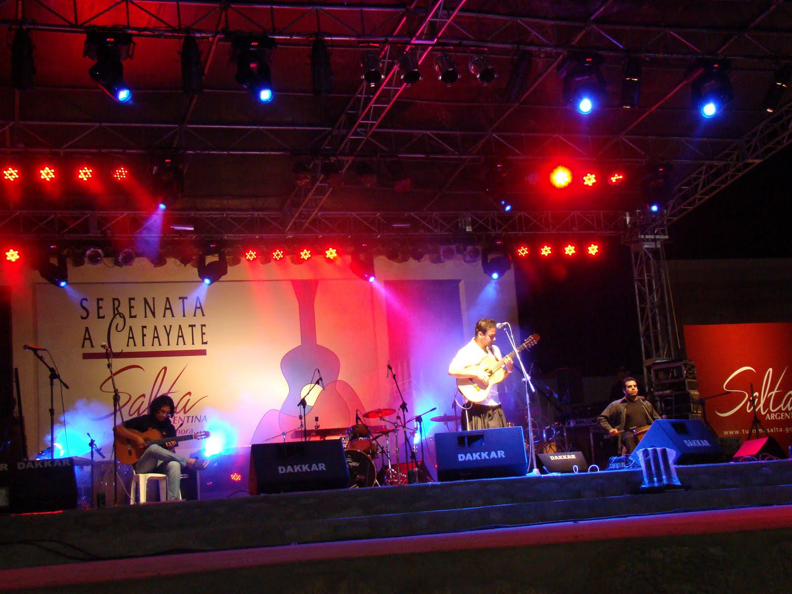 Serenata a Cafayate, Salta